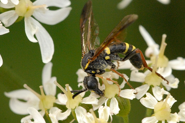 Tenthredo vespa from Commanster, Belgian High Ardennes .